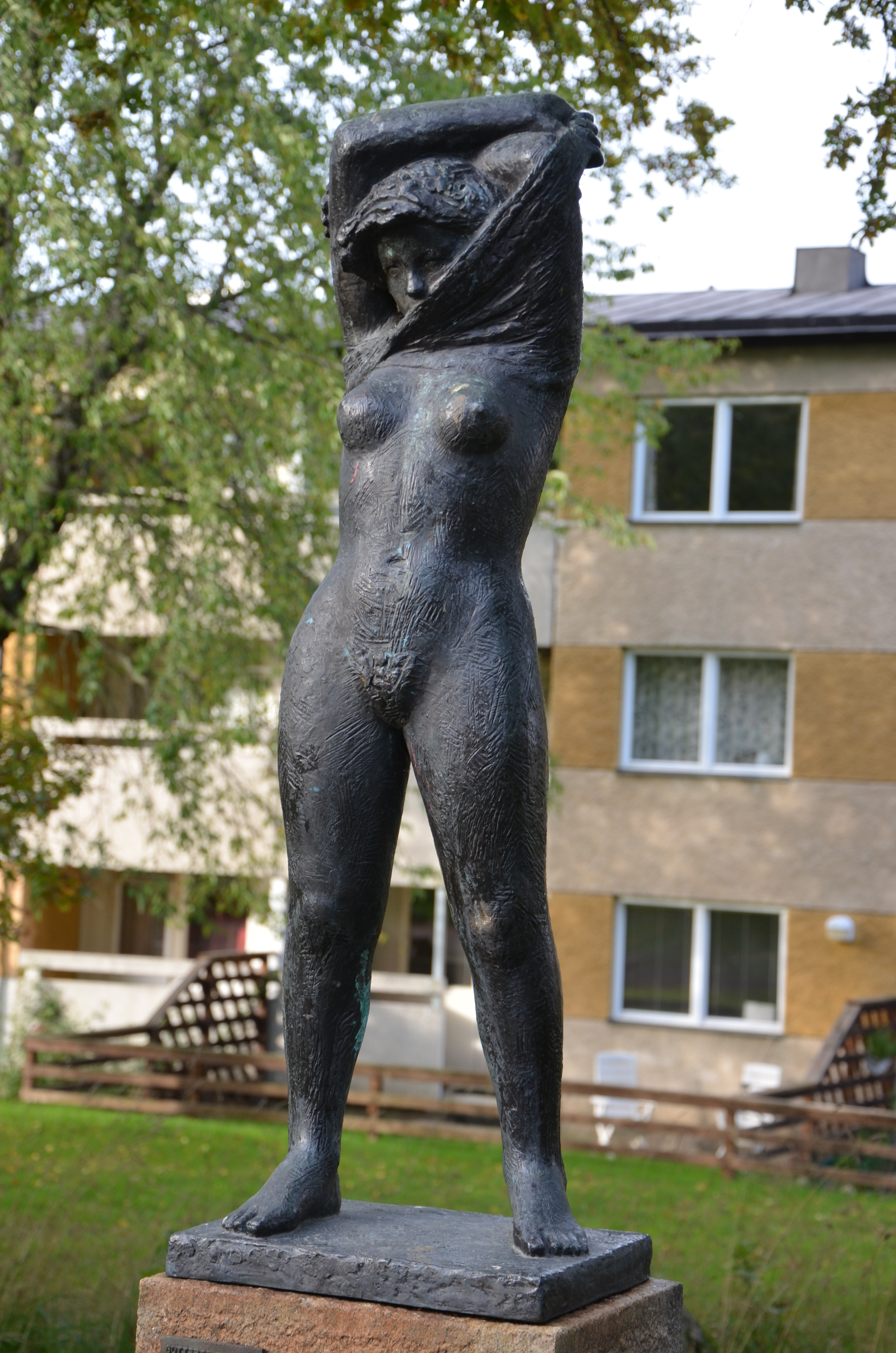 Sculpture Ung pige by Gottfred Eikhoff, Skärholmen, Stockholm